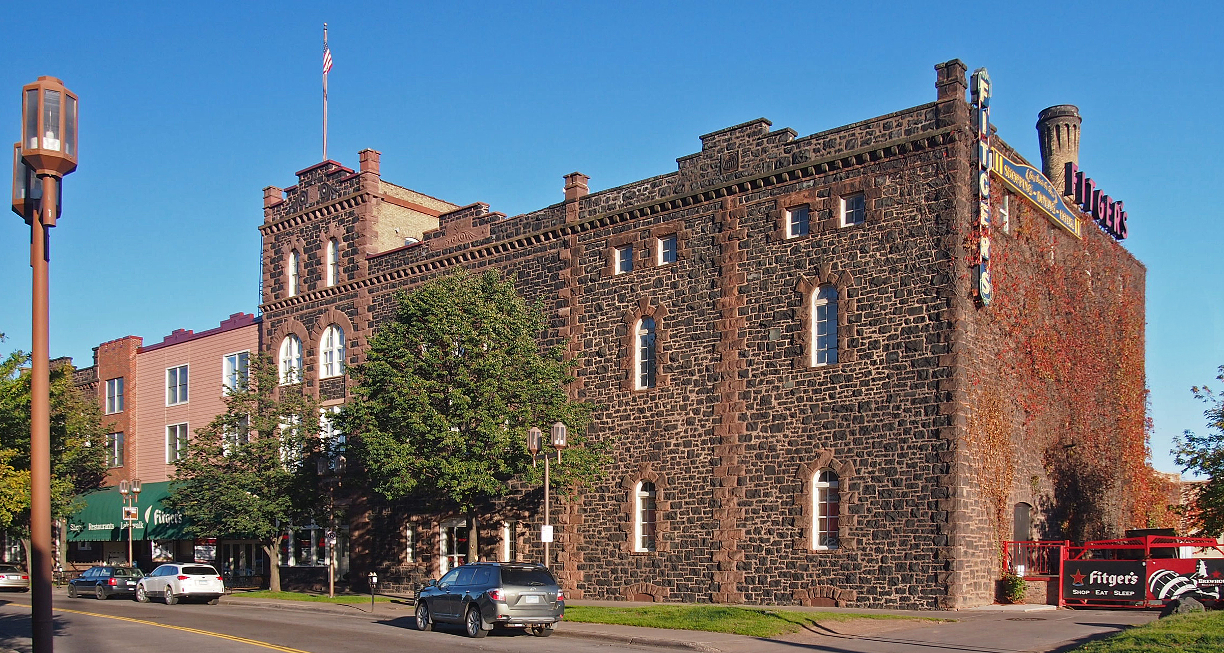 Fitger's Brewery, 600 E Superior St, Duluth, Minnesota, USA. West end of complex showing 1900 mill house (taller section), 1886 stock house 1, and 1899 stock house 2. Viewed from the west.